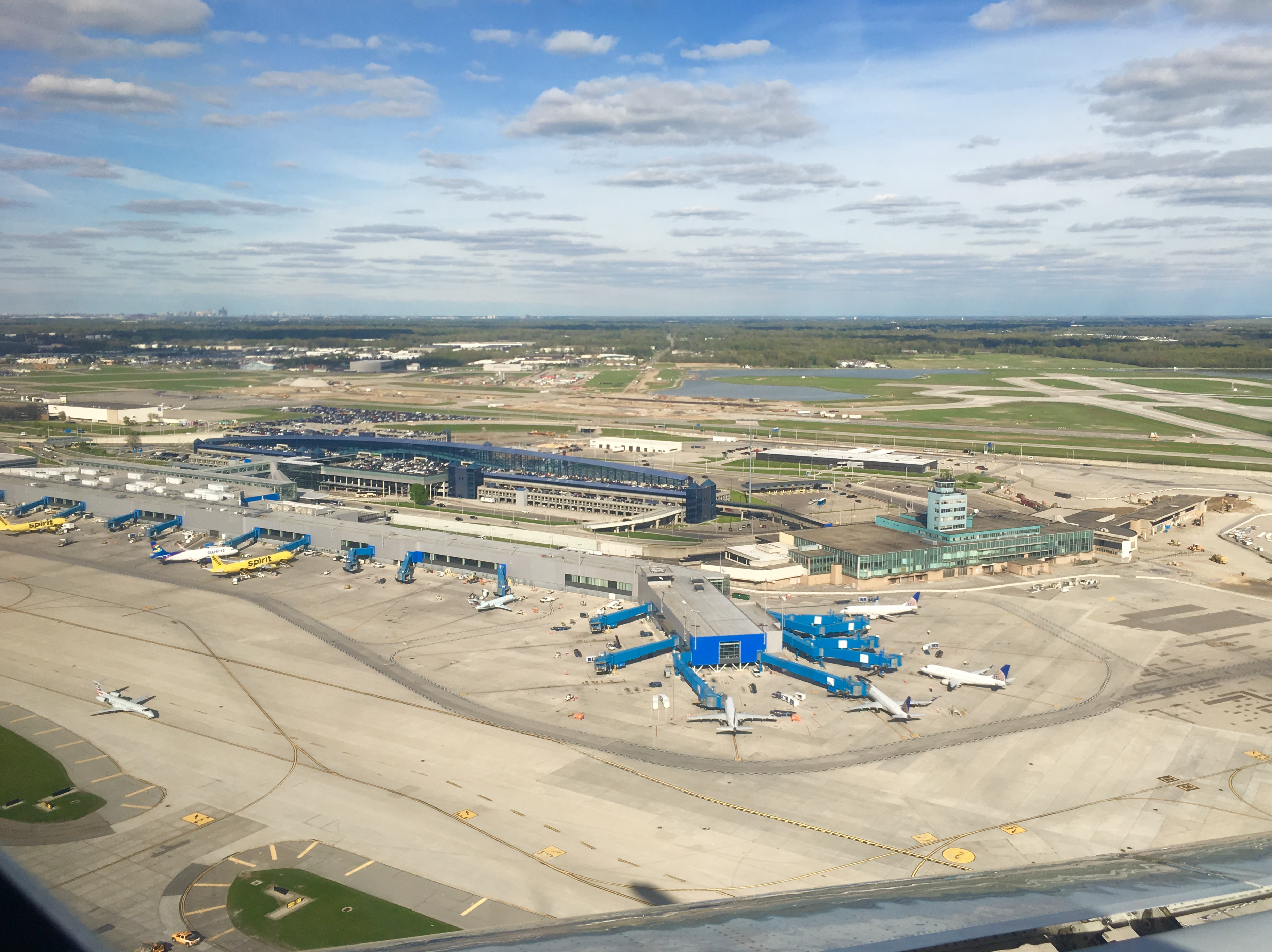 View of DTW’s North Terminal and the remains of the Smith Terminal. Taken May, 2019 from a Delta 717-200.